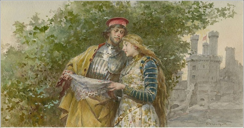 Othello